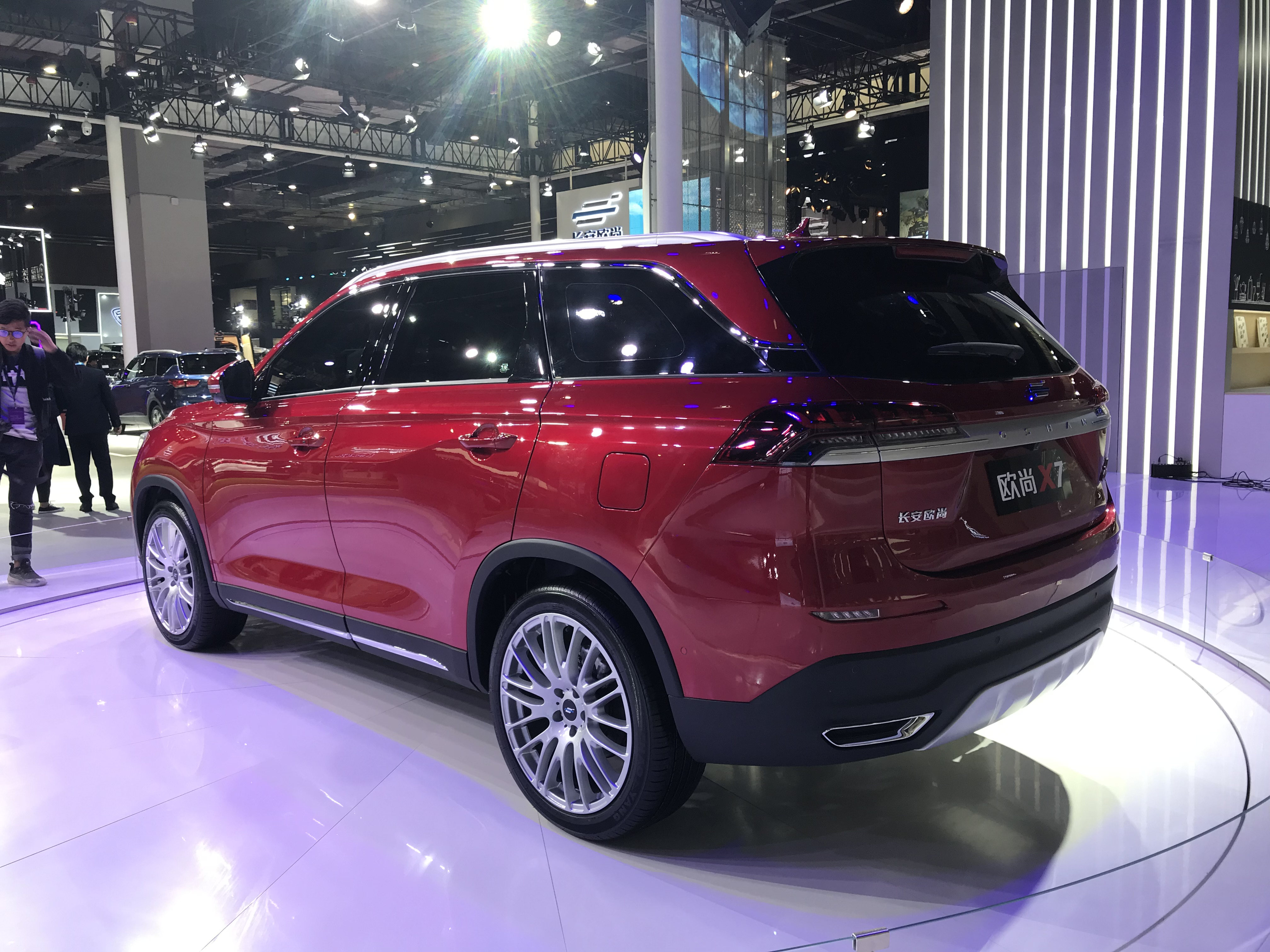 Oushan X7 rear